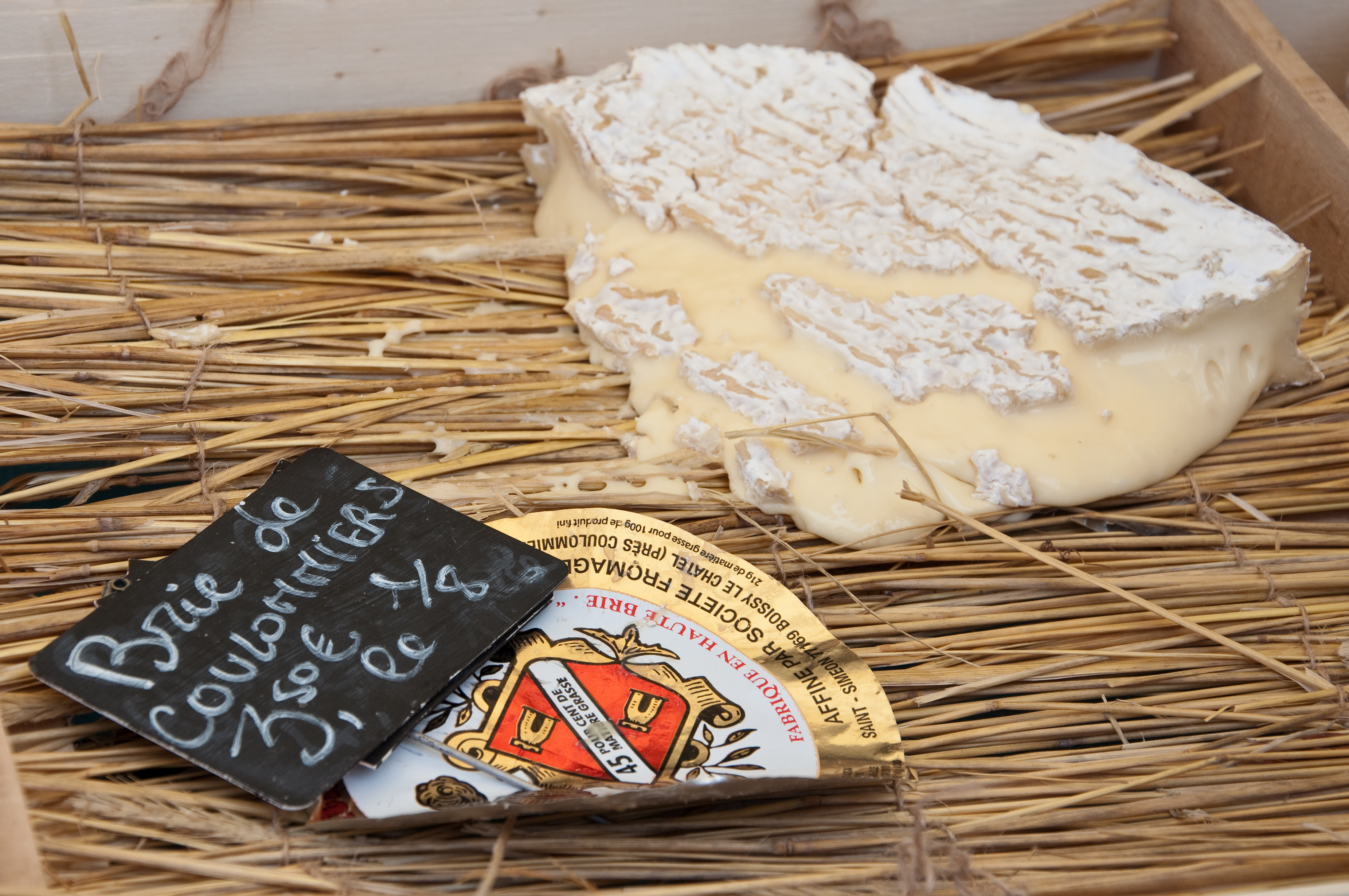 Brie de Coulommiers, a variety of the French cow's-milk cheese called coulommiers, here on sale on the market of the town named Coulommiers (Seine-et-Marne, France).